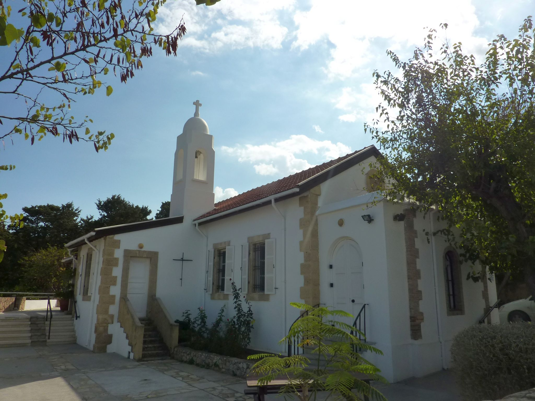 St Andrew's Anglican Church, Kyrenia